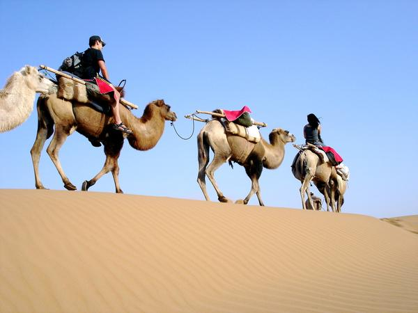 Camel ride in the Tengger Desert - August 19th, 2005. Train from Beijing to Ningxia Province.